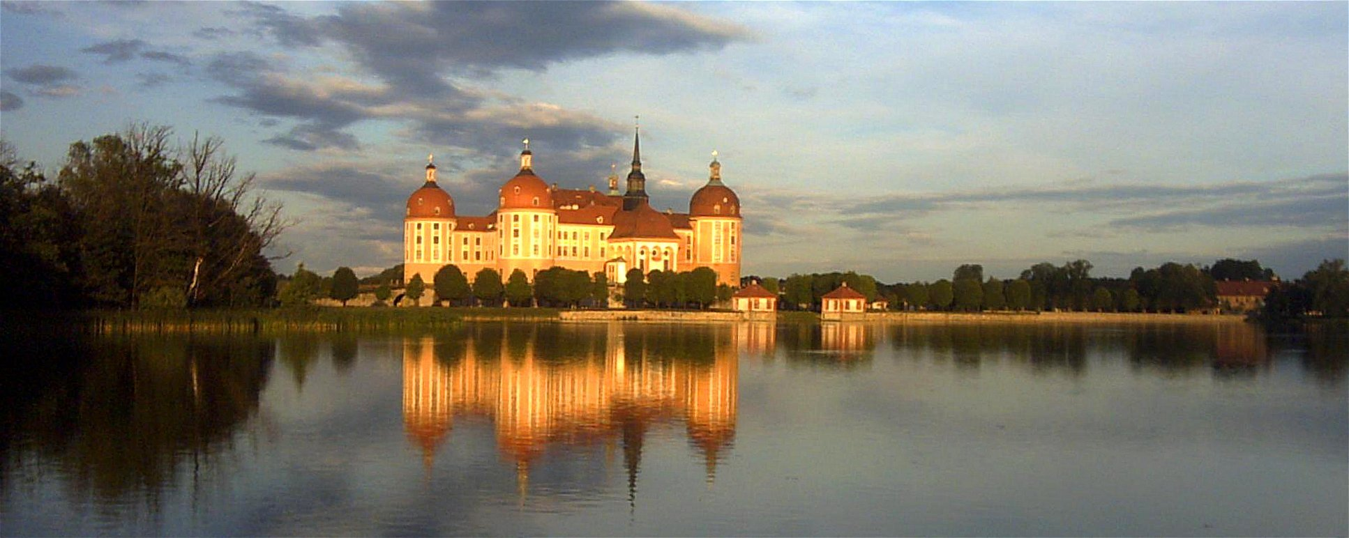 The picture shows the "Schloss Moritzburg" Castle in Germany. The borders have been straightened.